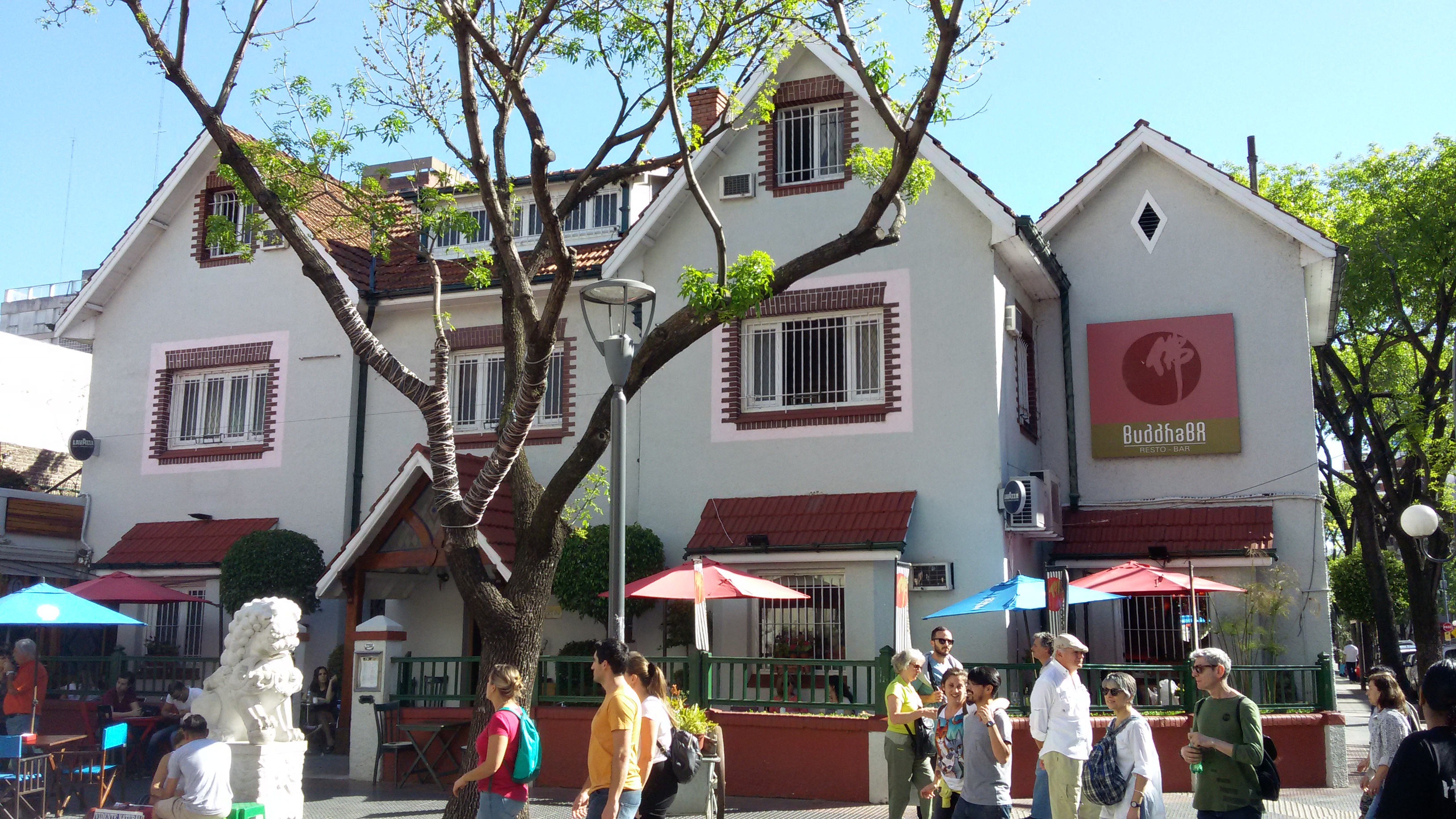 Houses at Arribeños street in the Barrio Chino of Buenos Aires